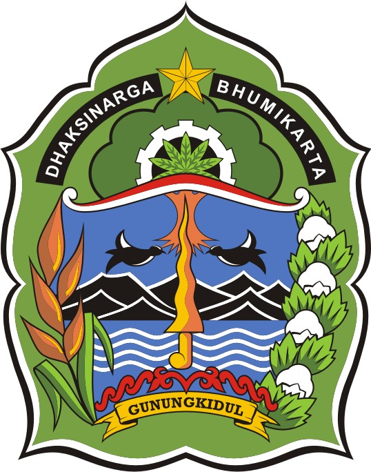 Coat of arms of Gunung Kidul Regency, Special Region of Yogyakarta